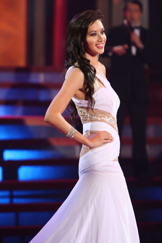 Miss Canada, Jessica Trisko is Miss Earth 2007